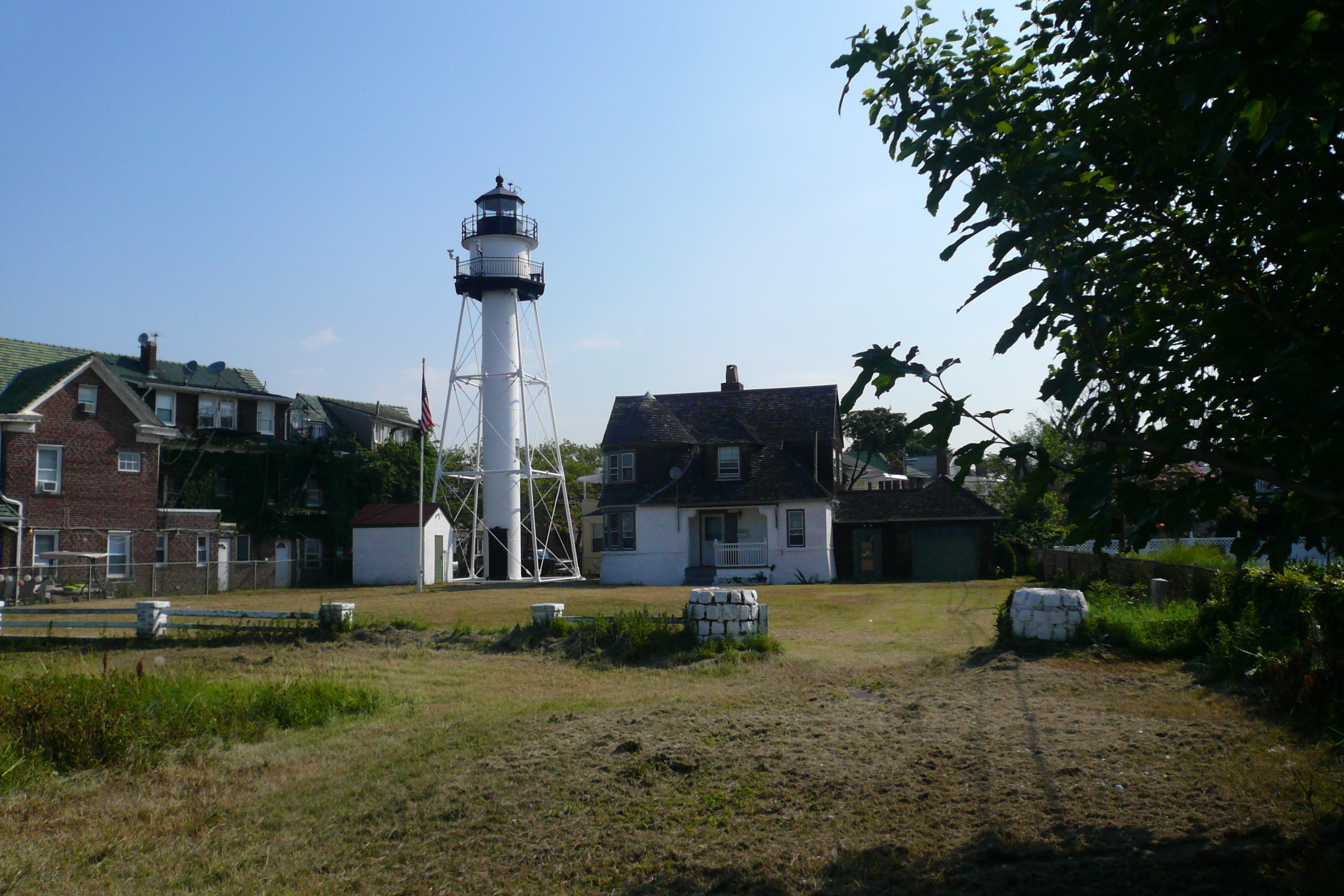 Coney island Lighthouse July 12th 2012 Established in 1890 US Coast Guard Homeland Security Current Operational